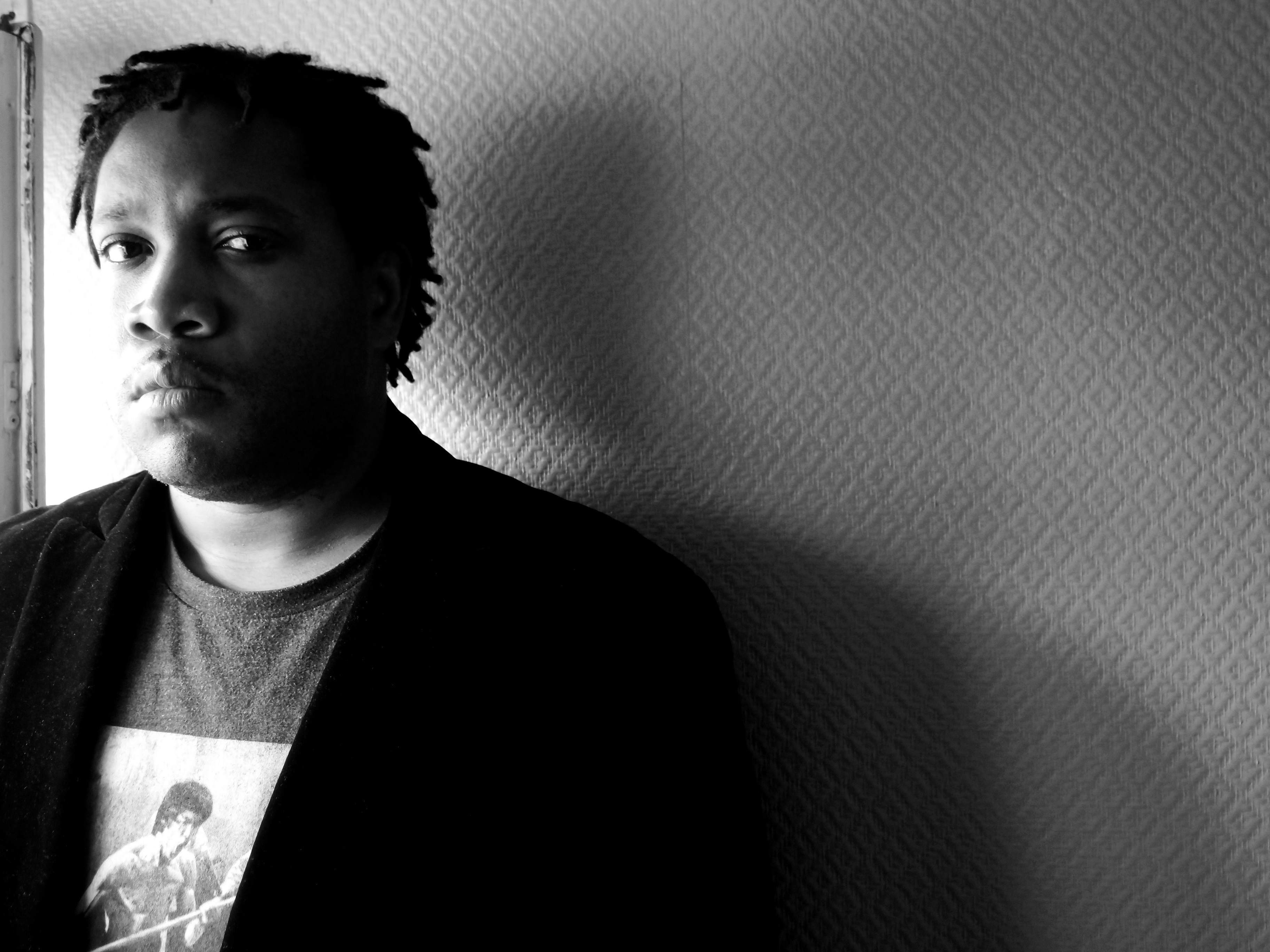 Trumpeter/Vocalist Leron Thomas during his tour in Paris October 2015